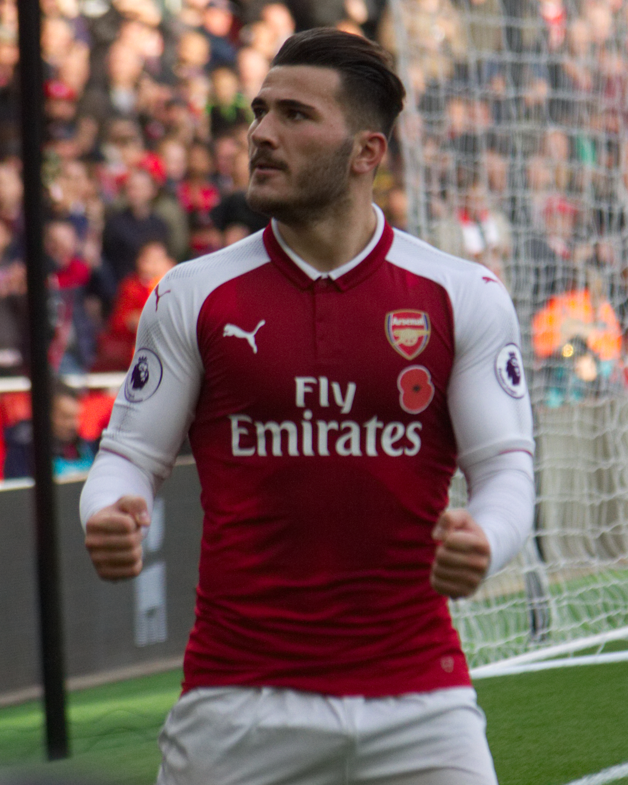 13 Kolasinac goal celebrations IMG_3774